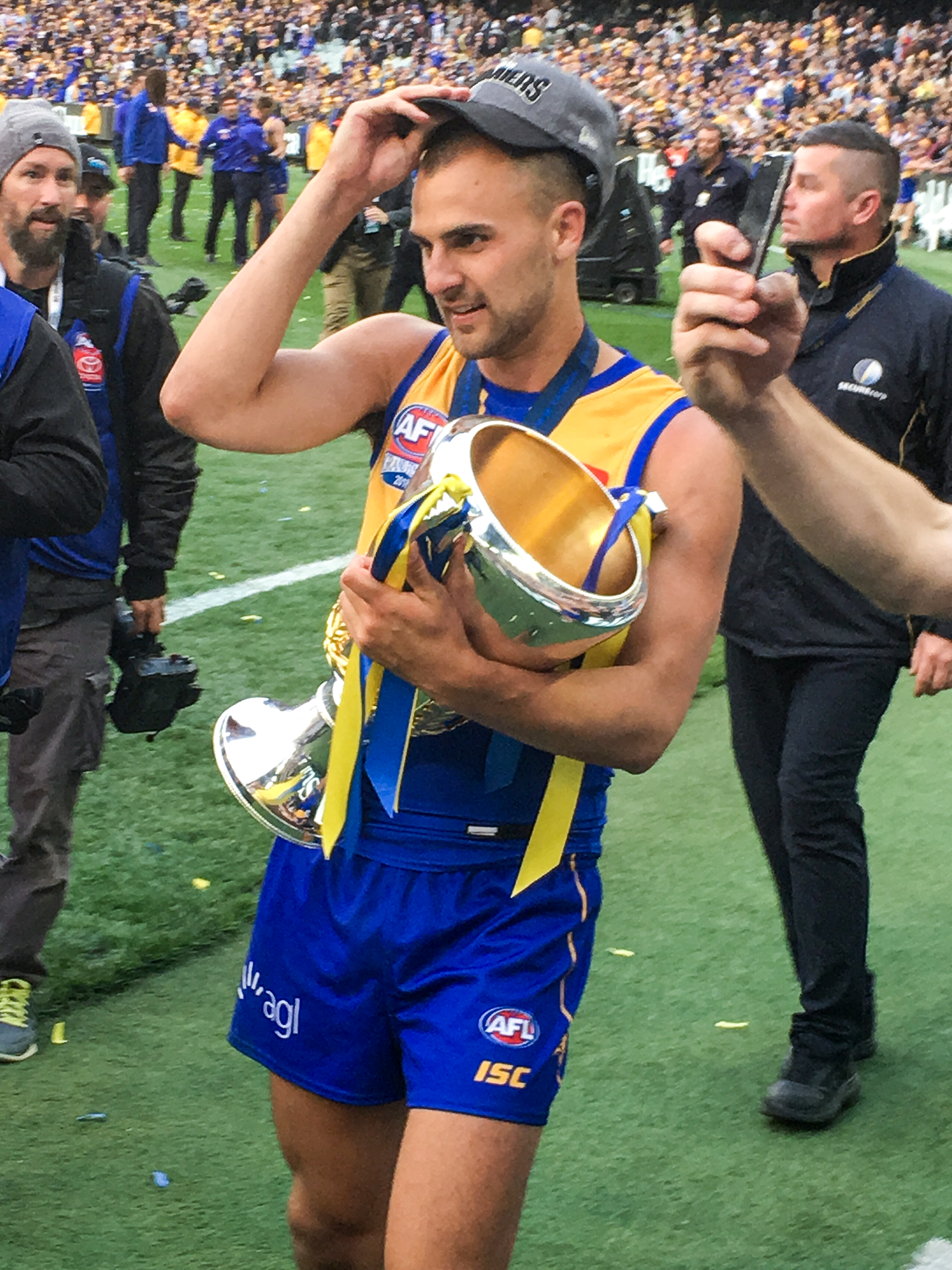 Dom Sheed with the premiership cup after winning the AFL Grand Final on 29 September 2018 in Melbourne, Victoria.